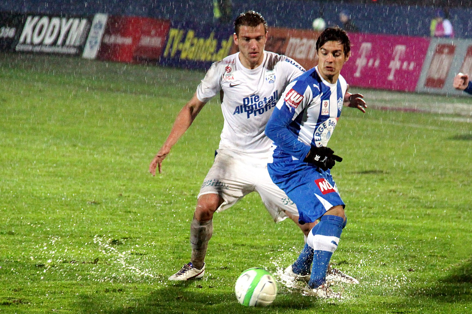 Austrian Football Bundesliga: SC Wiener Neustadt vs. SV Grödig (0:2) at 2013-11-23 in the Stadion Wiener Neustadt. – The photo shows Kristijan Dobras (SC Wiener Neustadt, blue shirt) and Mario Leitgeb (SV Grödig, white shirt).